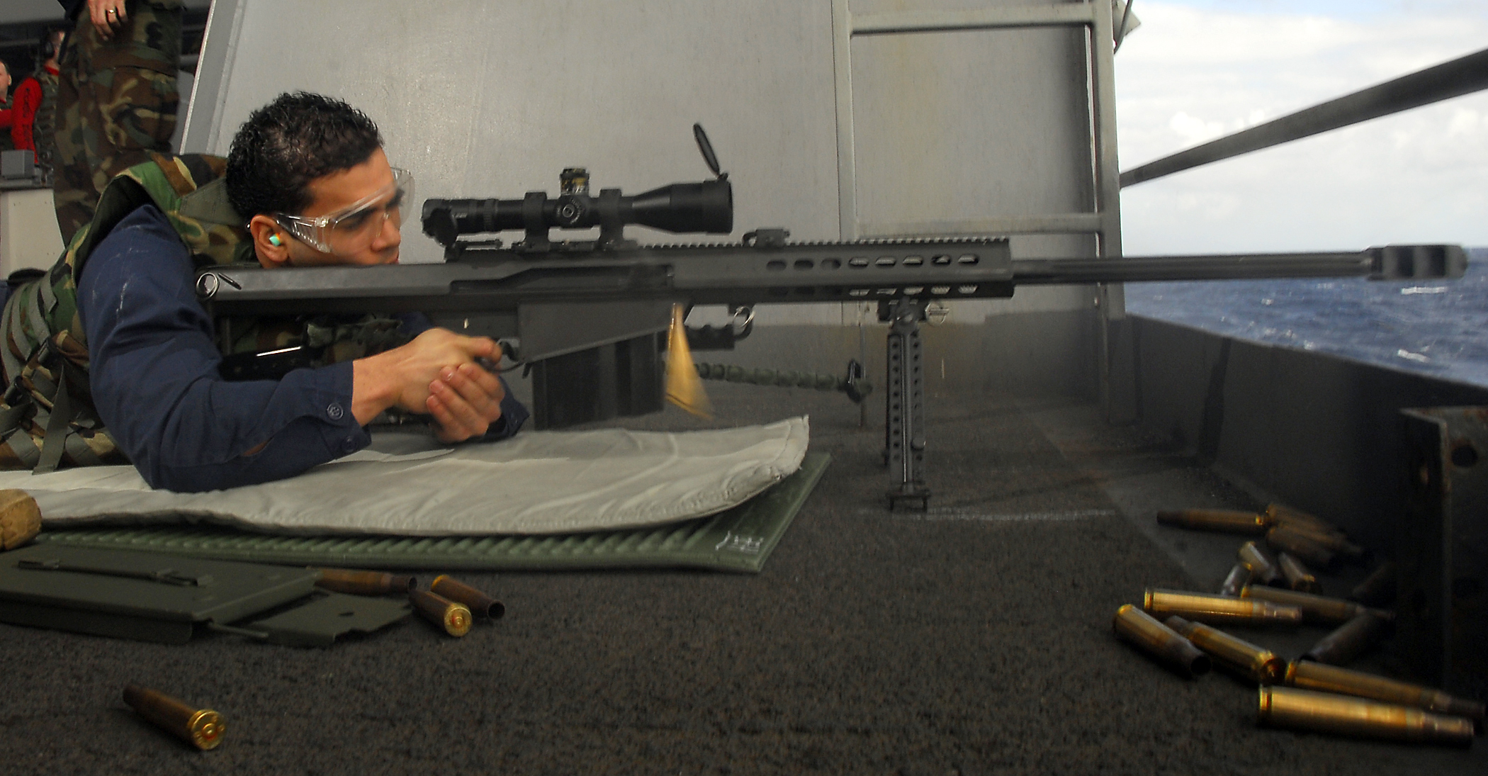 PACIFIC OCEAN (Jan. 24, 2009) Aviation Ordnanceman 3rd Class Jamie Mctizic, from Hobbs, N.M., fires a .50-caliber Barrett sniper rifle off the fantail of the aircraft carrier USS John C. Stennis (CVN 74) during a live-fire exercise. John C. Stennis is on a scheduled six-month deployment to the western Pacific Ocean. (U.S. Navy photo by Mass Communication Specialist 3rd Class Jon Husman/Released)